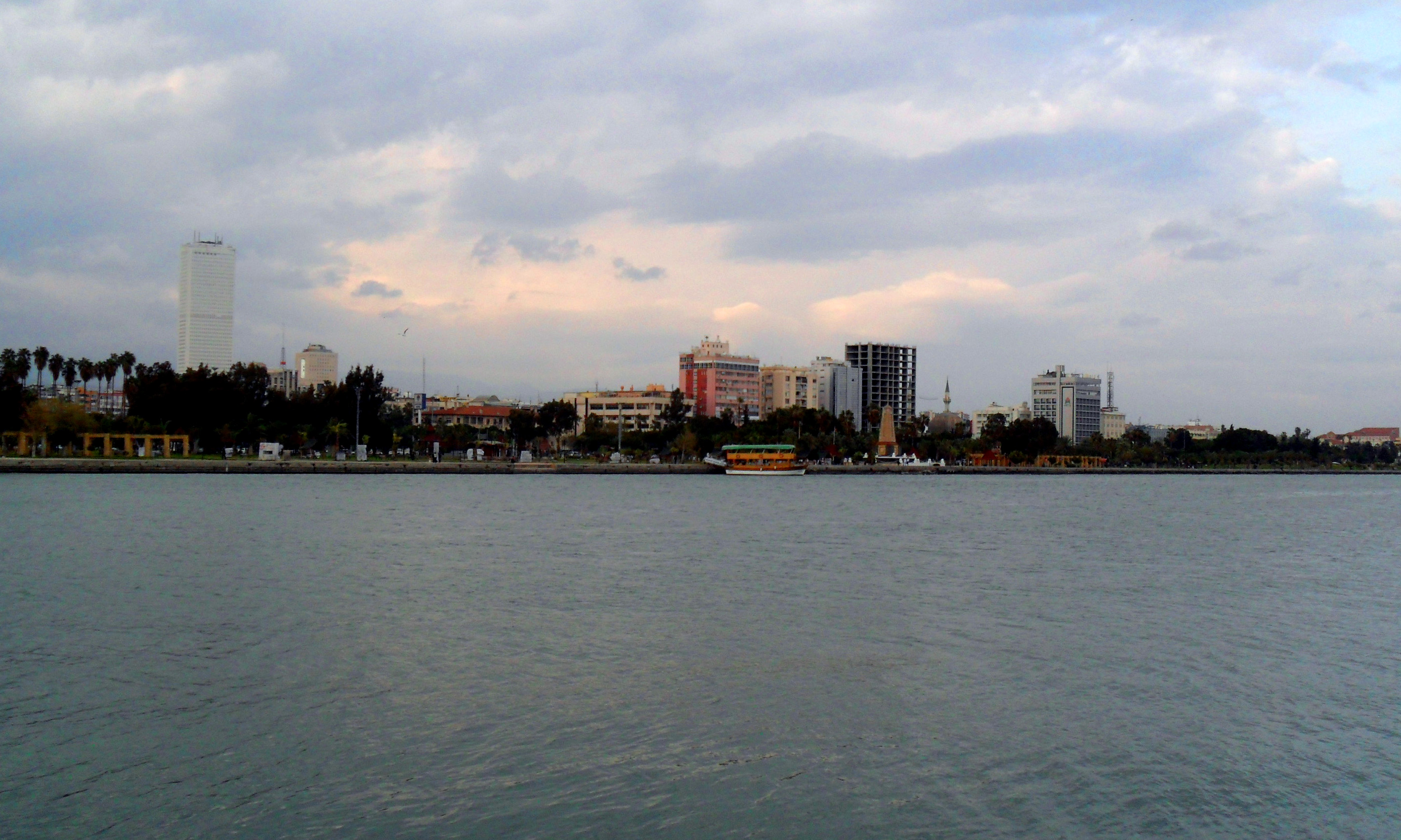 Mersin from the sea